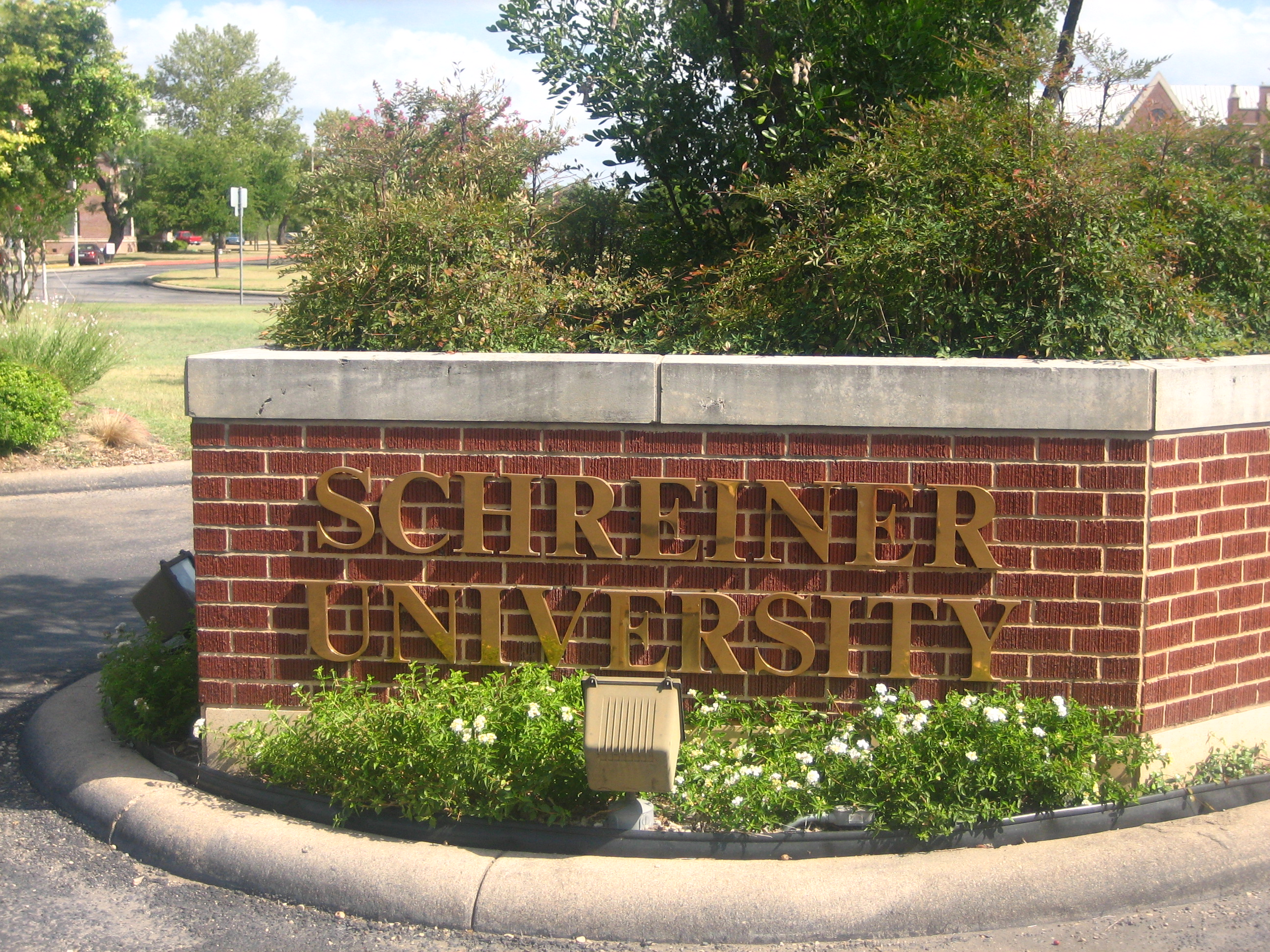 I took photo on July 19, 2008.